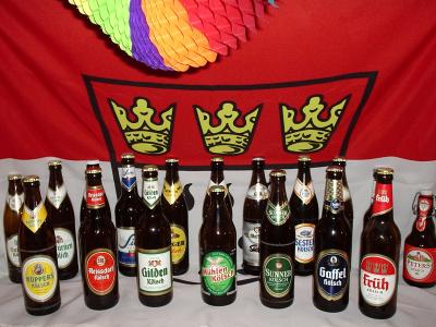 Differend kinds of bottled Kölsch beer